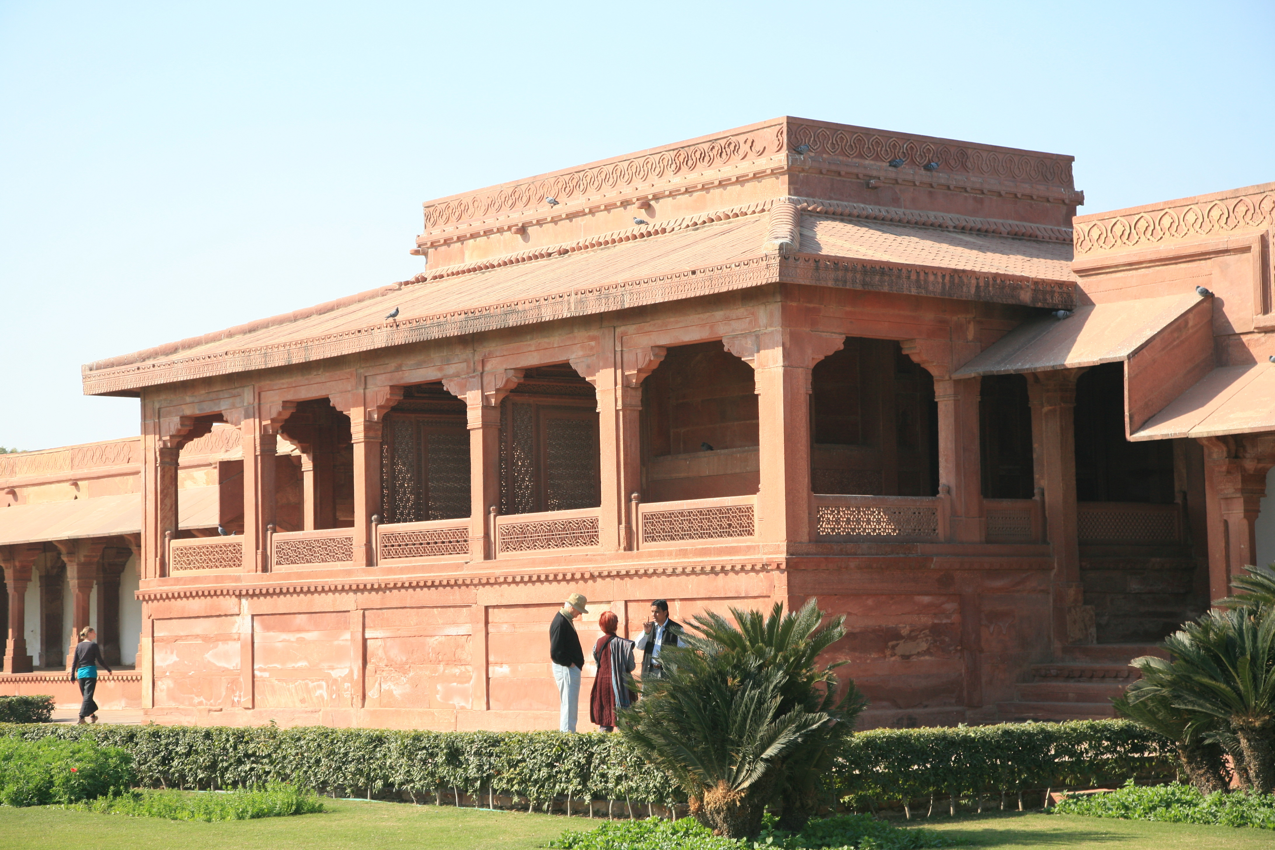 The Diwan-i-Am (the public audience hall) in Fatehpur Sikri.